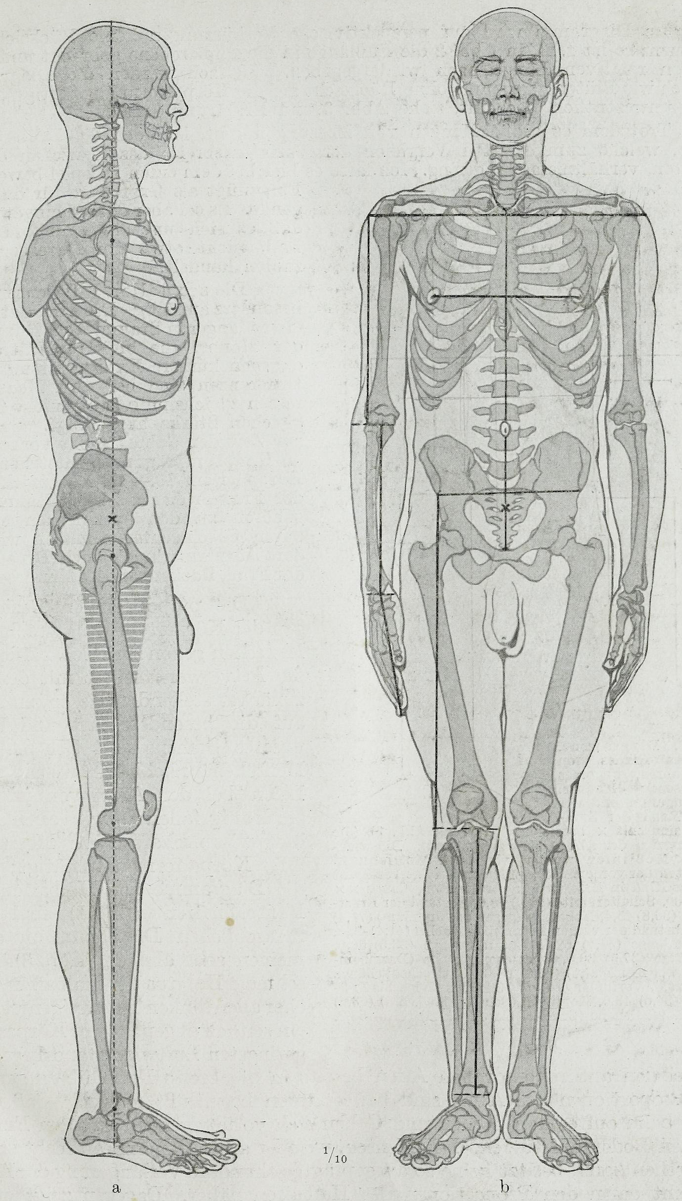 An anatomical illustration from the 1921 German edition of Anatomie des Menschen: ein Lehrbuch für Studierende und Ärzte with latin terminology.